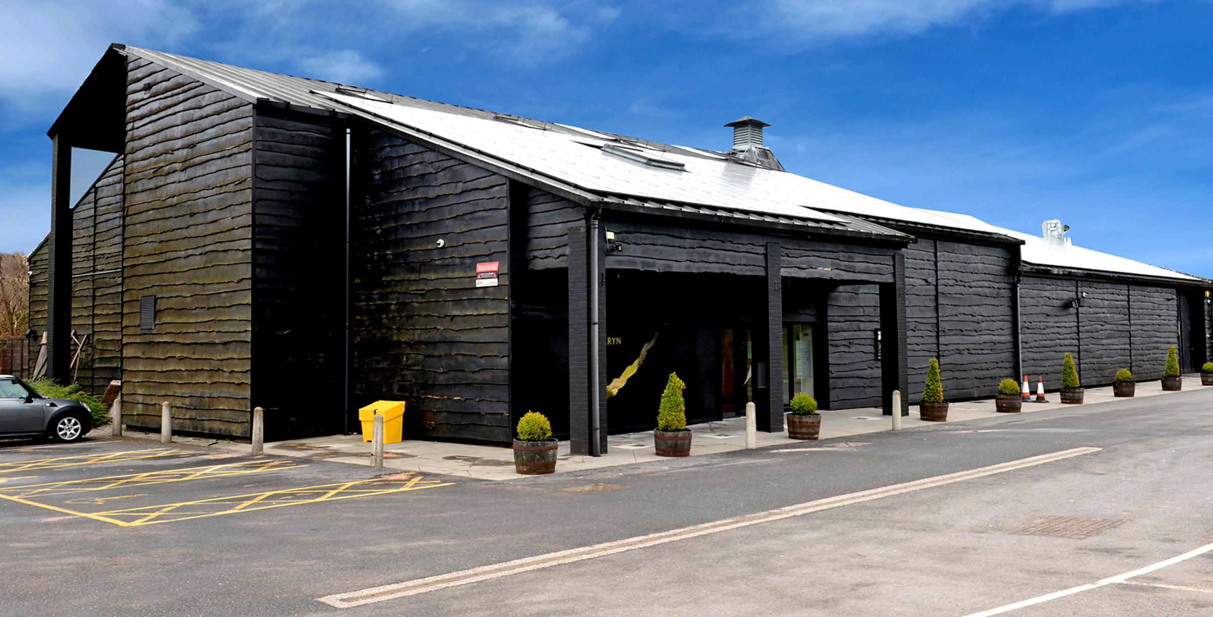 Exterior of the award-winning Penderyn Distillery.